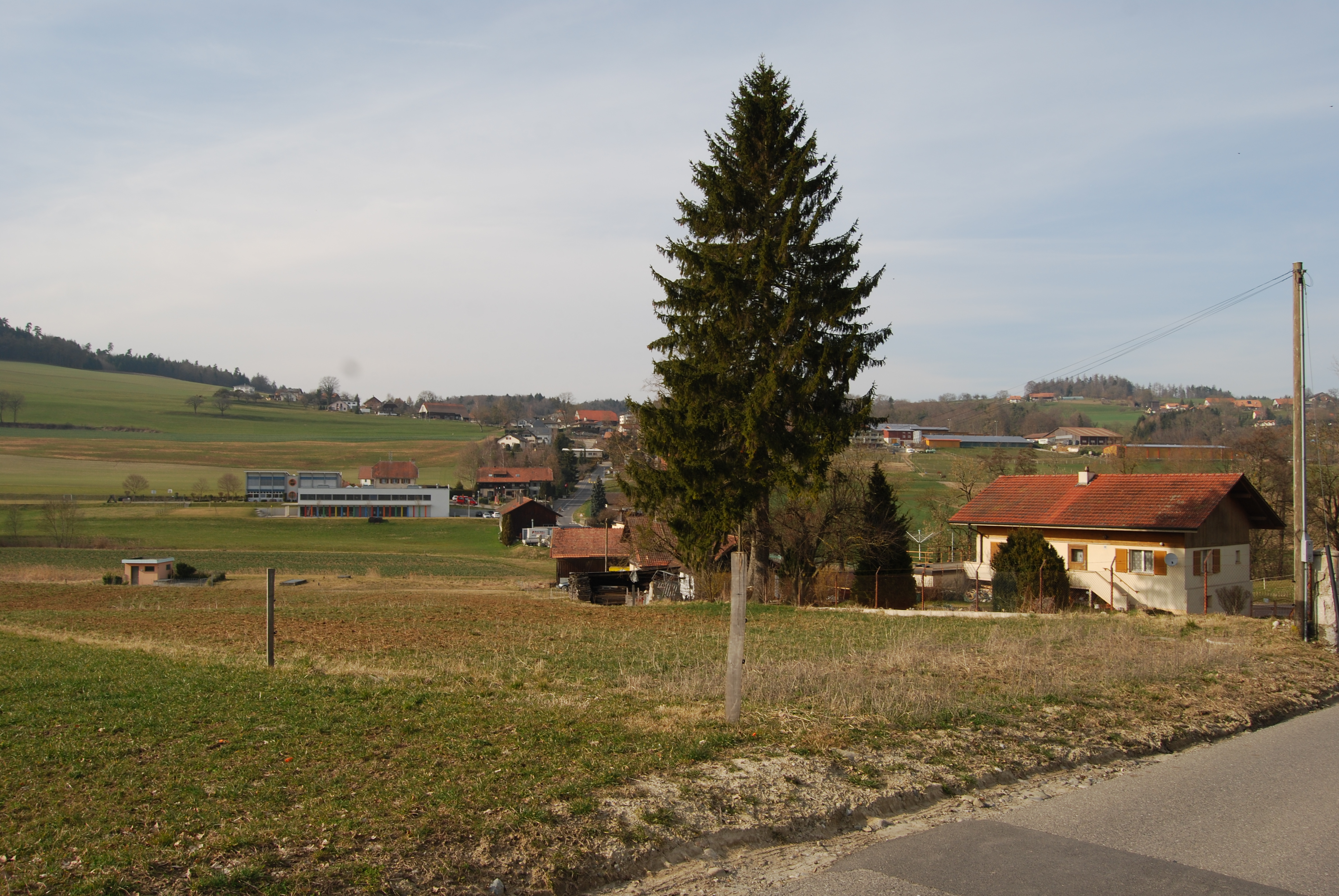 Lossy, municipality La Sonnaz, canton of Fribourg, Switzerland